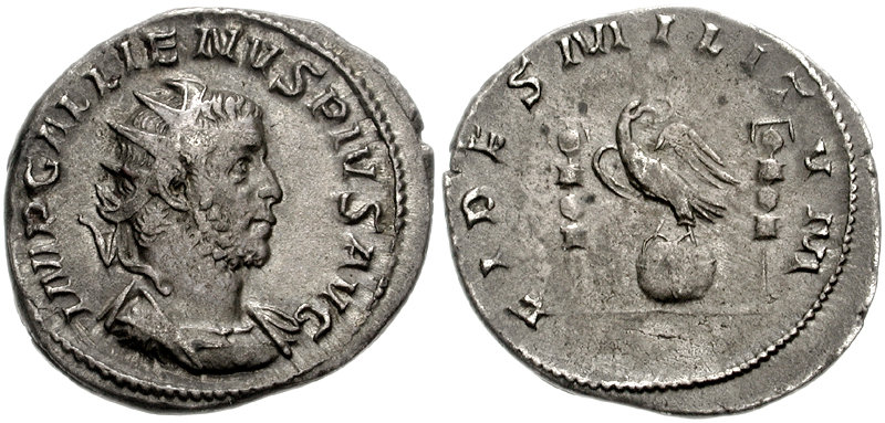 Gallienus. AD 253-268. Antoninianus (21mm, 3.98 g, 12h). Colonia Agrippinensis (Cologne) mint. 1st emission, AD 257-258. IMP GALLIENUS PIUS AUG, Radiate, draped, and cuirassed bust right FIDES MILITUM, Eagle standing left on globe, head right, holding wreath in beak; signum to left and right. RIC V 11; MIR 36, 871b; RSC 253.